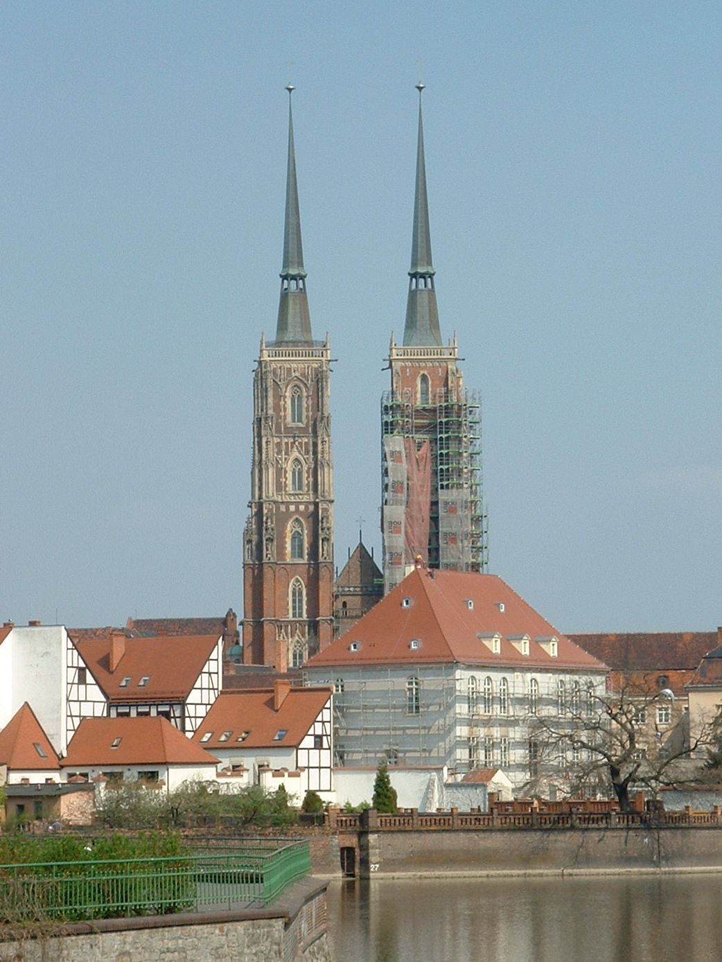 Cathedral church in Wrocław, west towers seen from west south west (south river bank of the Odra River.